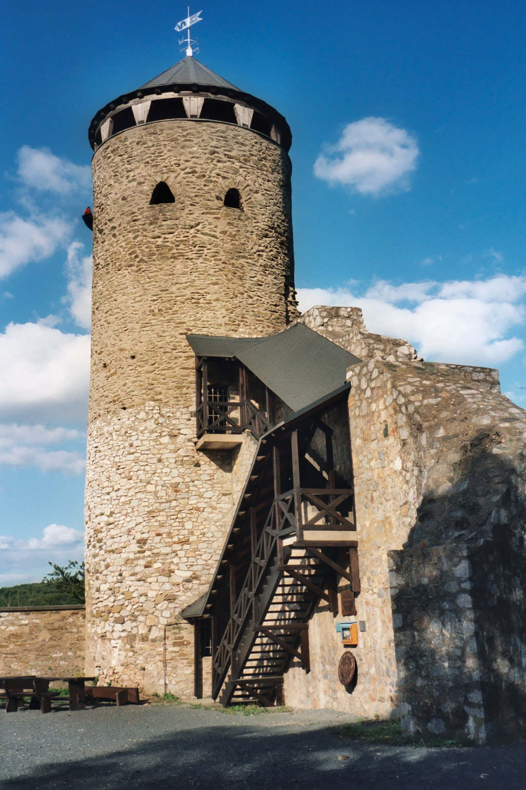 The ruins of the Philippstein castle near Braunfels, Lahn-Dill-Kreis, Germany.